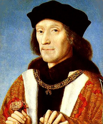 arched topText from NPG catalogue: "This impressive portrait is the earliest painting in the National Portrait Gallery's collection. The inscription records that the portrait was painted on 29 October 1505 by order of Herman Rinck, an agent for the Holy Roman Emperor, Maximilian I. The portrait was probably painted as part of an unsuccessful marriage proposal, as Henry hoped to marry Maximillian's daughter Margaret of Savoy as his second wife".